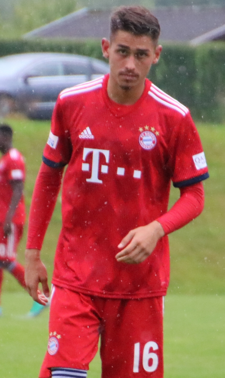 preseasonnmatch 2018/19